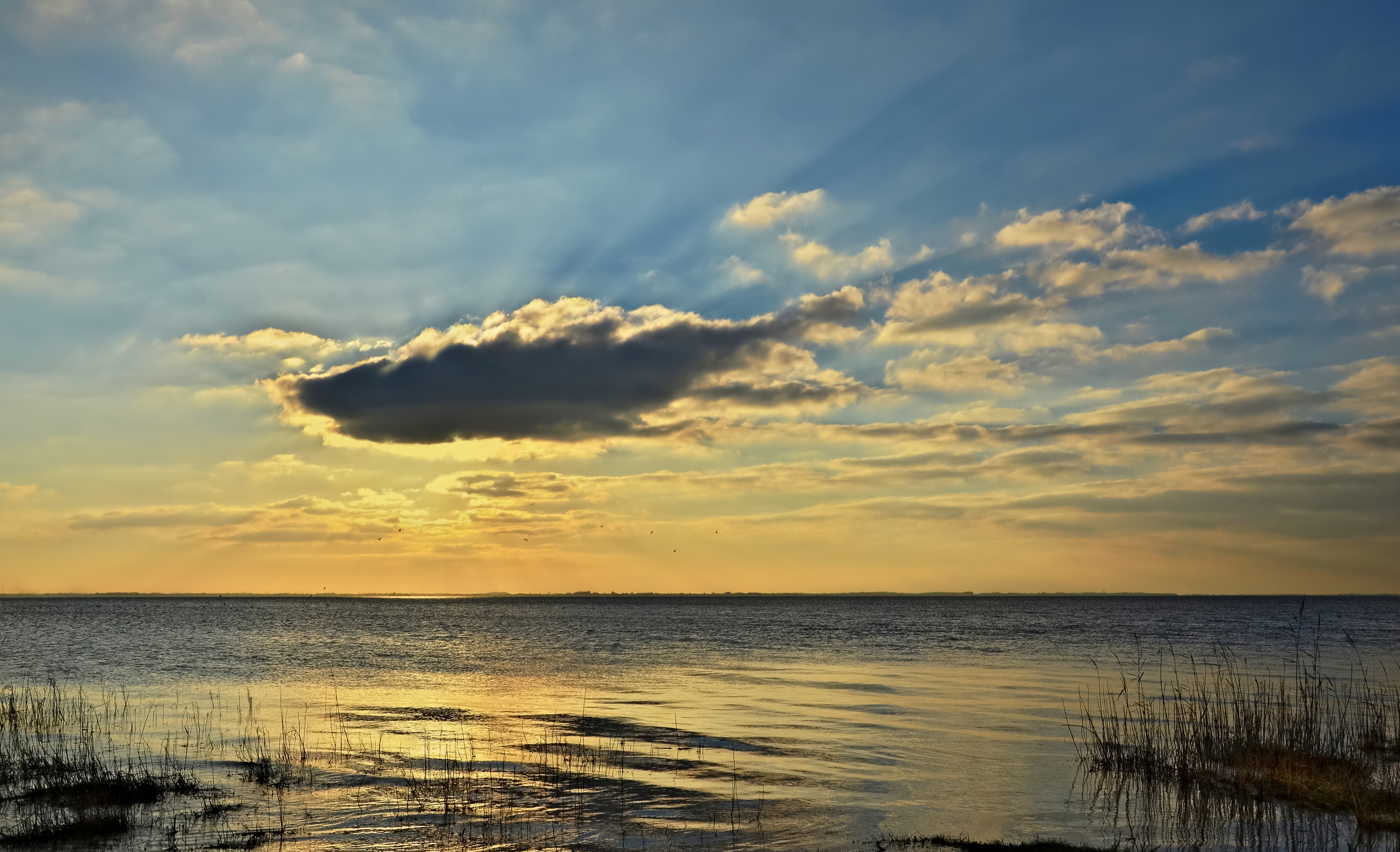 Evening on the Gironde estuary, near Port-Maubert, Saint-Fort-sur-sur-Gironde, Charente-Maritime, France.